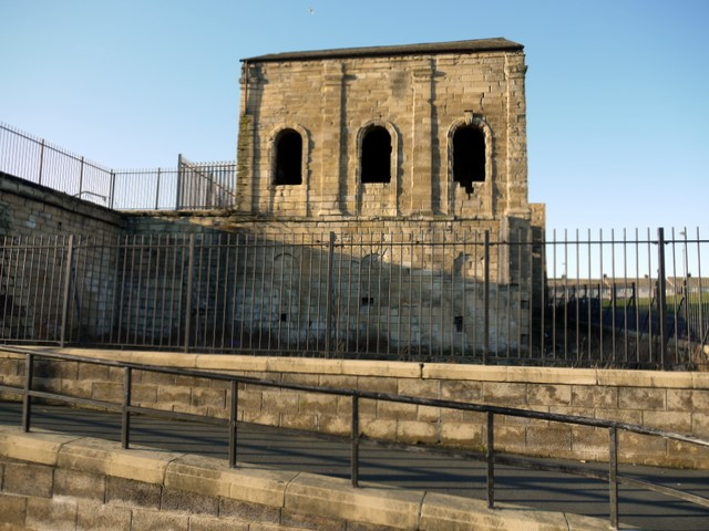 Throston Engine House, Hartlepool. Throston Engine House was built between 1838-1840. It contained a steam winding engine which hauled the coal wagons of the Stockton and Hartlepool Railway up 14ft to the staithes of the Hartlepool Railway. For another photograph see 24780